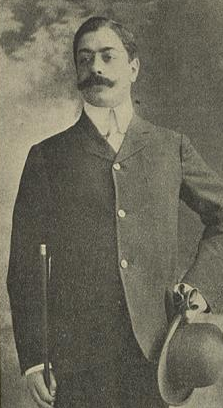 The Count of Olivais and of Penha Longa